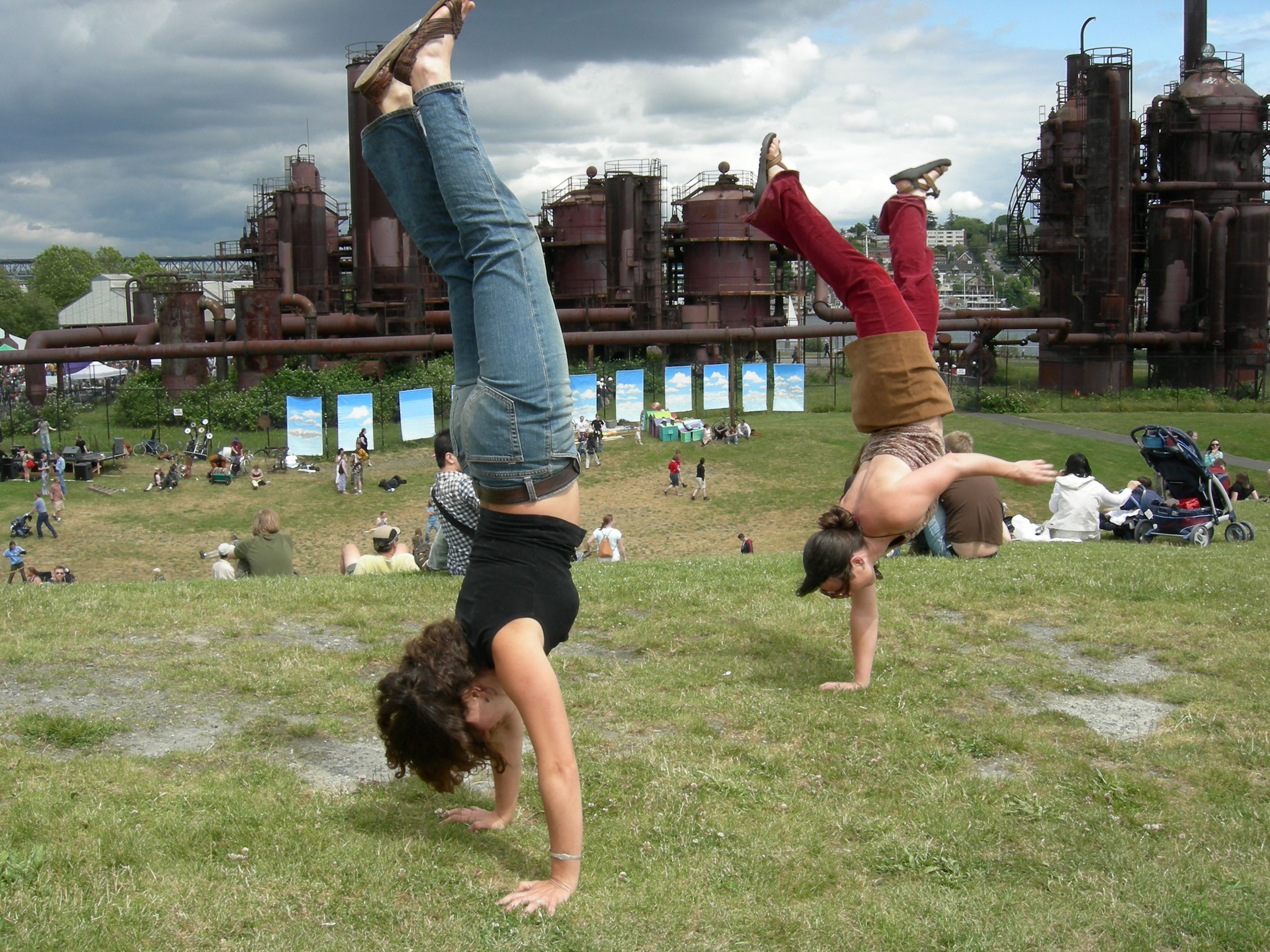 People practicing handstands, Gas Works Park, Seattle, Washington, at the tail end of the 2007 Summer Solstice Parade and Pageant.